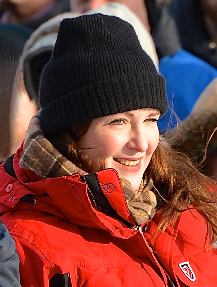 Regina Kevius at Royal Palace Sprint in Stockholm March 20, 2013